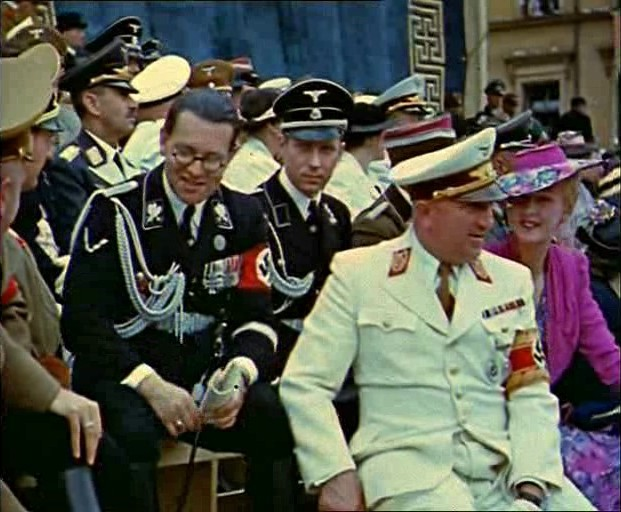 (from left) Philipp Bouhler (Reichsleiter and Chief of Hitler's Chancellery (Kanzlei des Führers)), SS-Hauptsturmführer Karl Freiherr Michel von Tüßling (Bouhler's personal adjutant), Robert Ley (head of the German Labour Front) with his wife Inga; Munich, July 1939